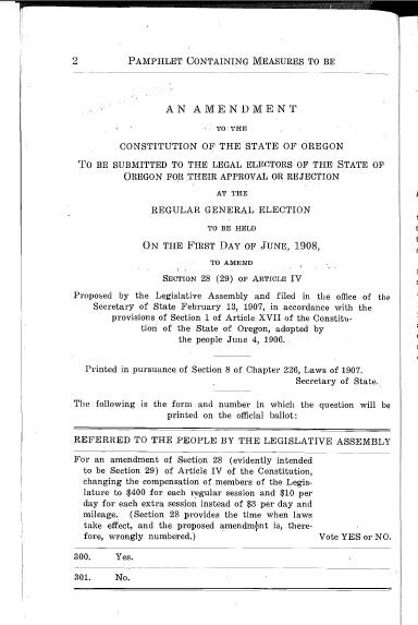 This is a picture of Oregon Ballot Measure 1, as seen on the 1908 voters pamphlet.